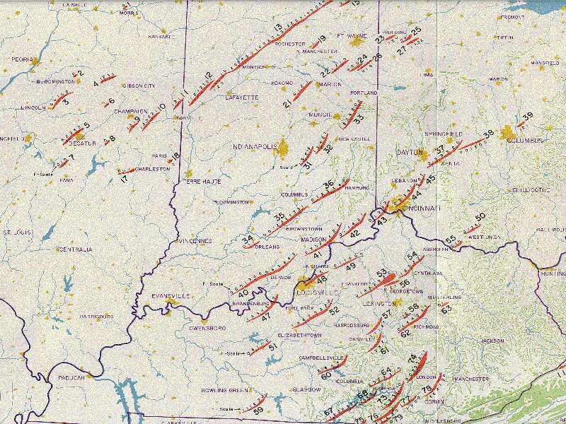 Map of the tornado tracks in Illinois, Indiana, Ohio and Kentucky during the Super Outbreak of April 3-4, 1974